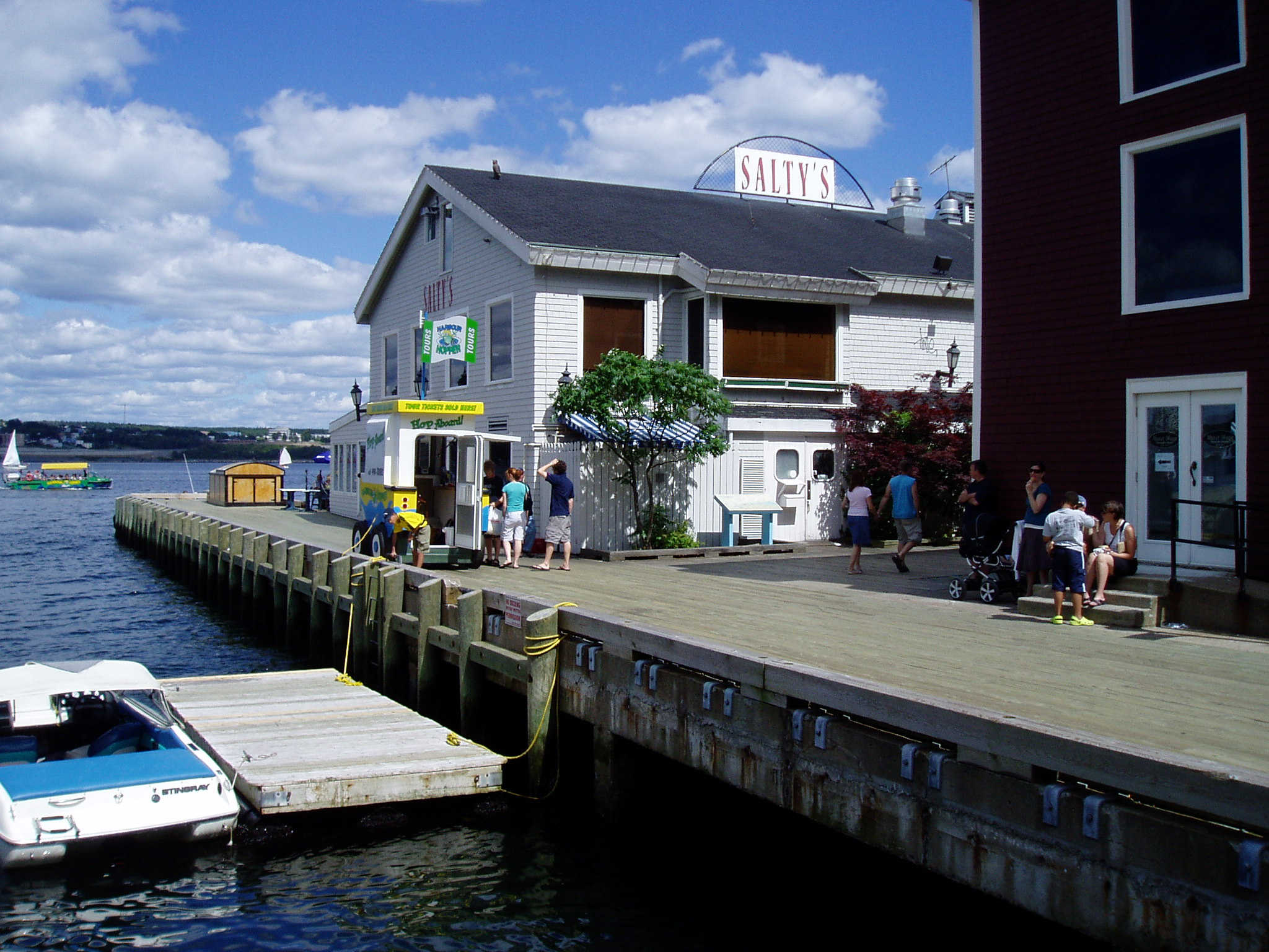 The Halifax boardwalk. Taken by SimonP